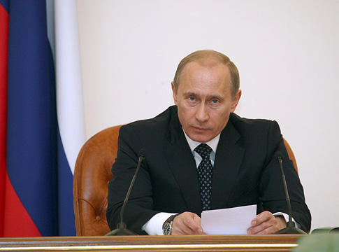 Russian Prime Minister Vladimir Putin opens the Cabinet meeting